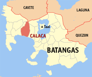 Map of Batangas showing the location of Calaca